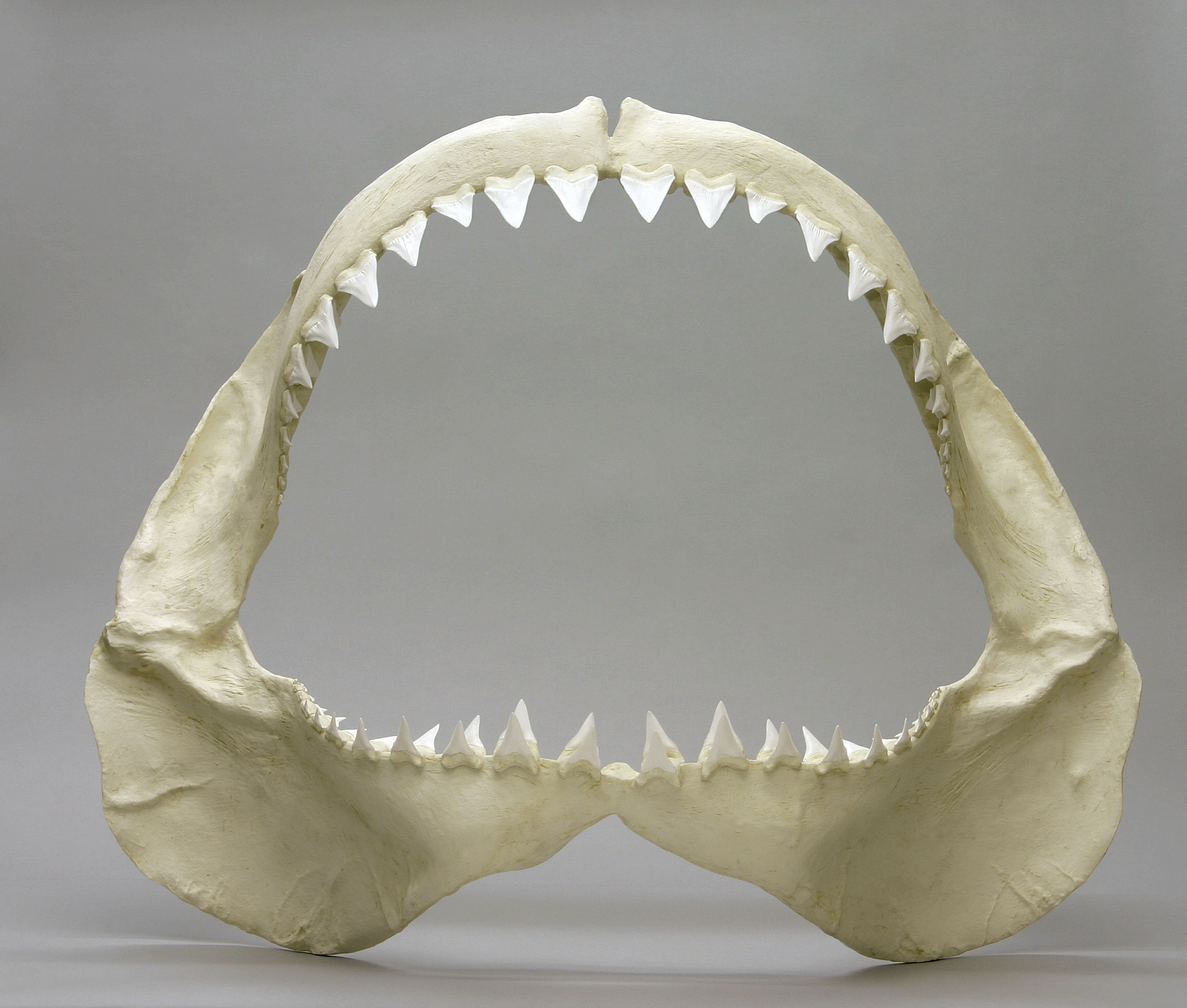 Bone Clones image of Great White Shark jaw